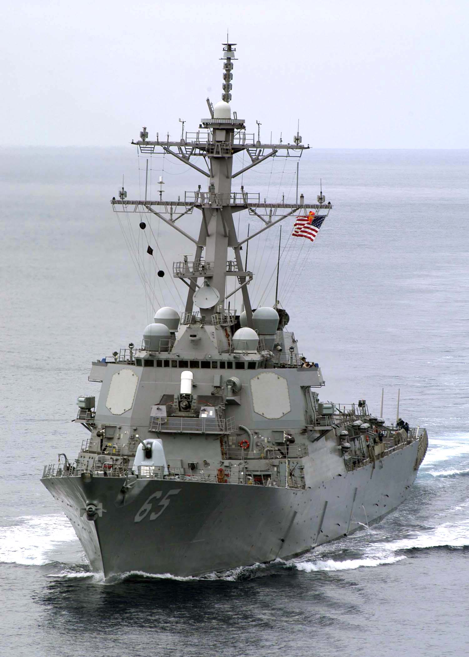 Pacific Ocean (Aug. 28, 2004) - Guided missile destroyer USS Benfold (DDG 65) cuts through the water during her approach on the aircraft carrier USS Abraham Lincoln (CVN 72) during an underway replenishment (UNREP). Lincoln and Carrier Air Wing Two (CVW-2) are currently conducting operations in preparation for an upcoming deployment.